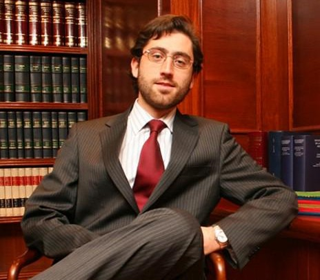 Photo of Pedro Pizarro as Undersecretary of Social Security in 2019